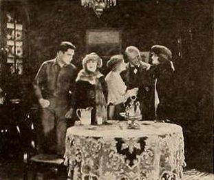 Still from the American film The False Road (1920) with Enid Bennett, on page 3484 of the April 17, 1920 Motion Picture News.